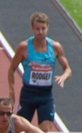 Sebastian Rodger at Sainsbury's Anniversary Games